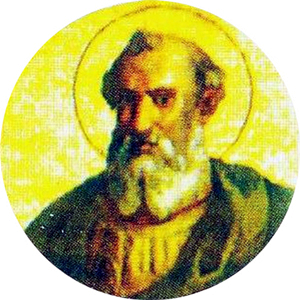 Portait of Pope Victor I in the Basilica of Saint Paul Outside the Walls, Rome